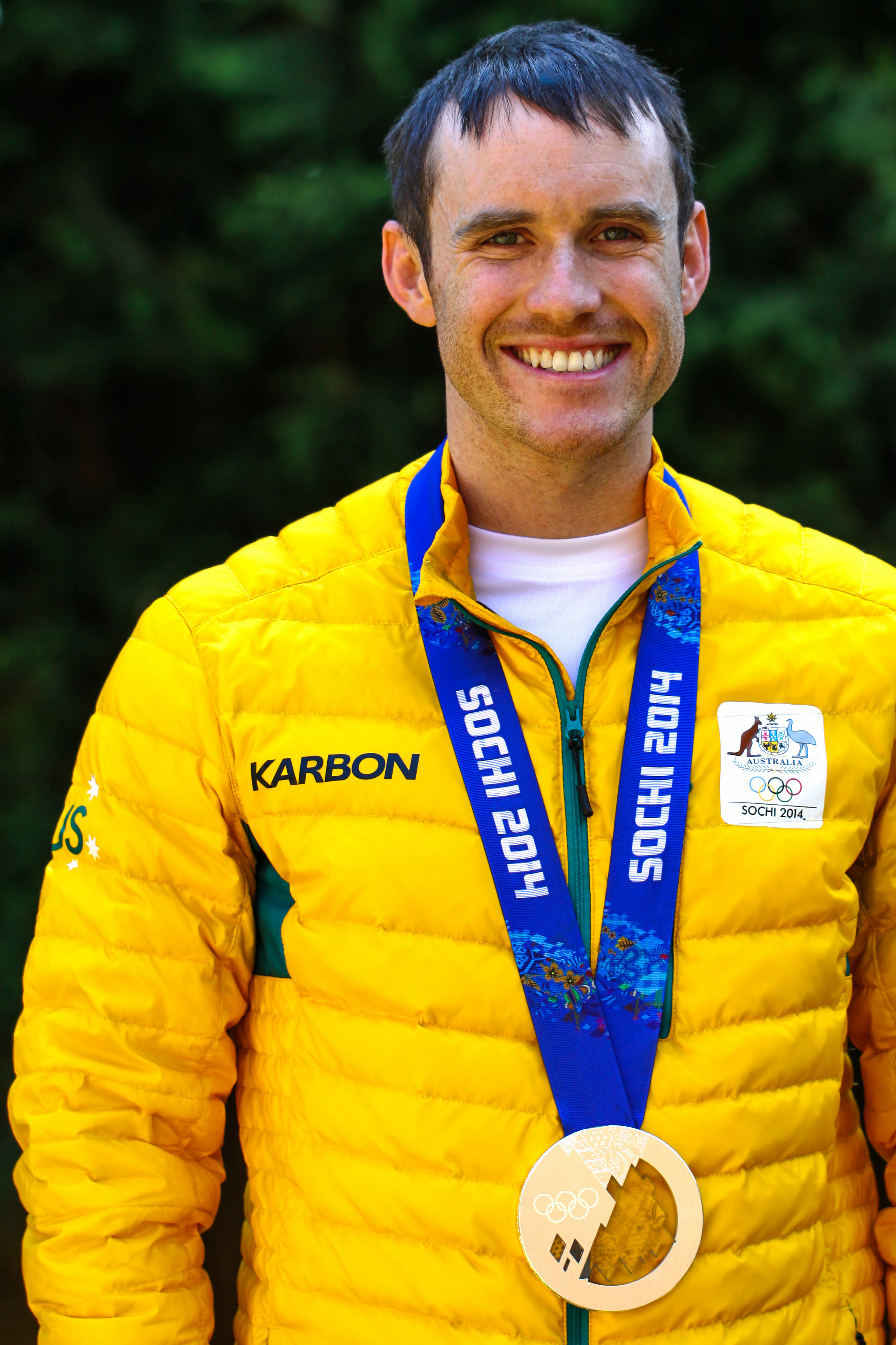 Aerial Skier David Morris Sochi 2014 Olympic Winter Games Silver Medallist in Australian yellow podium jacket. By Peter Morris Photography